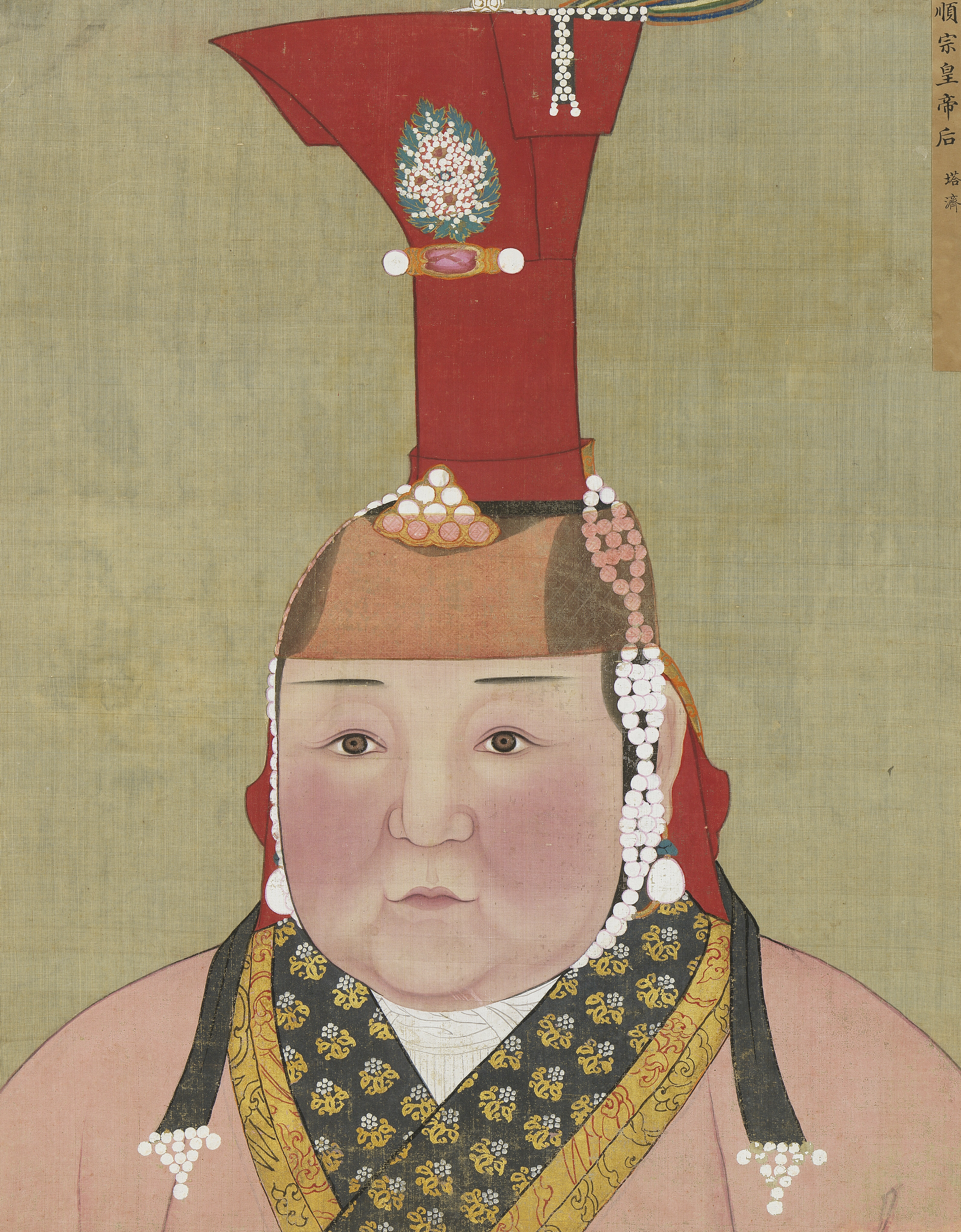 Taji, wife of Darmabala (a.k.a. Shunzong, father of Qaishan and Ayurbarvada). Paint and ink on silk. Portrait cropped out of a page from an album depicting several consorts of Yuan emperors (Yuandai dihou banshenxiang), now located in the National Palace Museum in Taipei (inv. nr. zhonghua 000325). Original size is 48 cm wide and 61.5 cm high. For the full page, see Image:YuanEmpressAlbumChabiAndTaji.jpg. Note: Some rows or columns of pixels near the margins of the pic may have been manipulated by me (Yaan) for optics. For an unaltered (except cropping) version, see the image at Image:YuanEmpressAlbumChabiAndTaji.jpg.